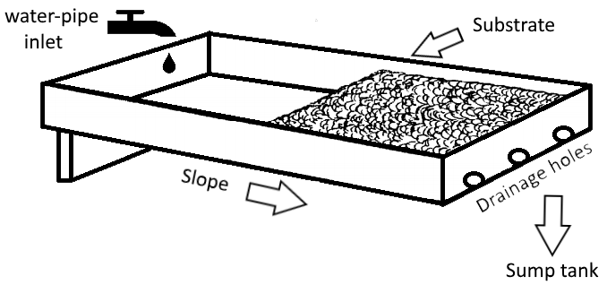 A run-to-waste hydroponics system referred to as "The Bengal System" after the region in northeastern India where it was invented (circa 1946-1948).